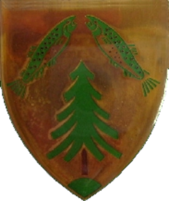 SADF era Belfast Commando emblem